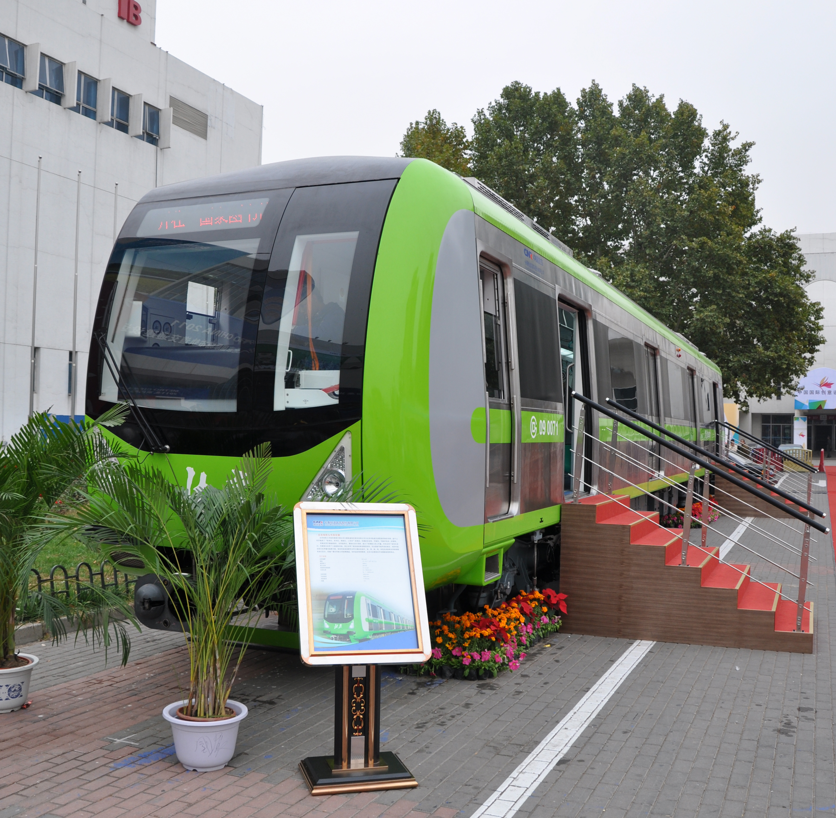 Rolling stock of Line 9, Beijing Subway. Photoed on METRO CHINA 2011.